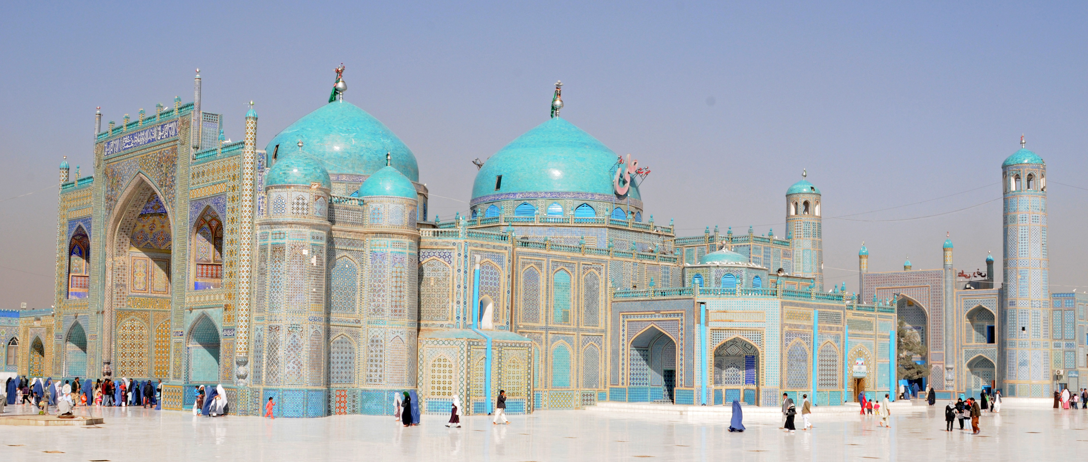 The Sultan Ahmed Mosque, popularly known as the Blue Mosque, in Mazar-e-Sharif, Balkh Province, Afghanistan, April 3, 2012. (37th IBCT photo by Sgt. Kimberly Lamb) (Released)